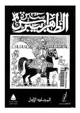 Frontispiece of Sirat al-Zahir Baibars